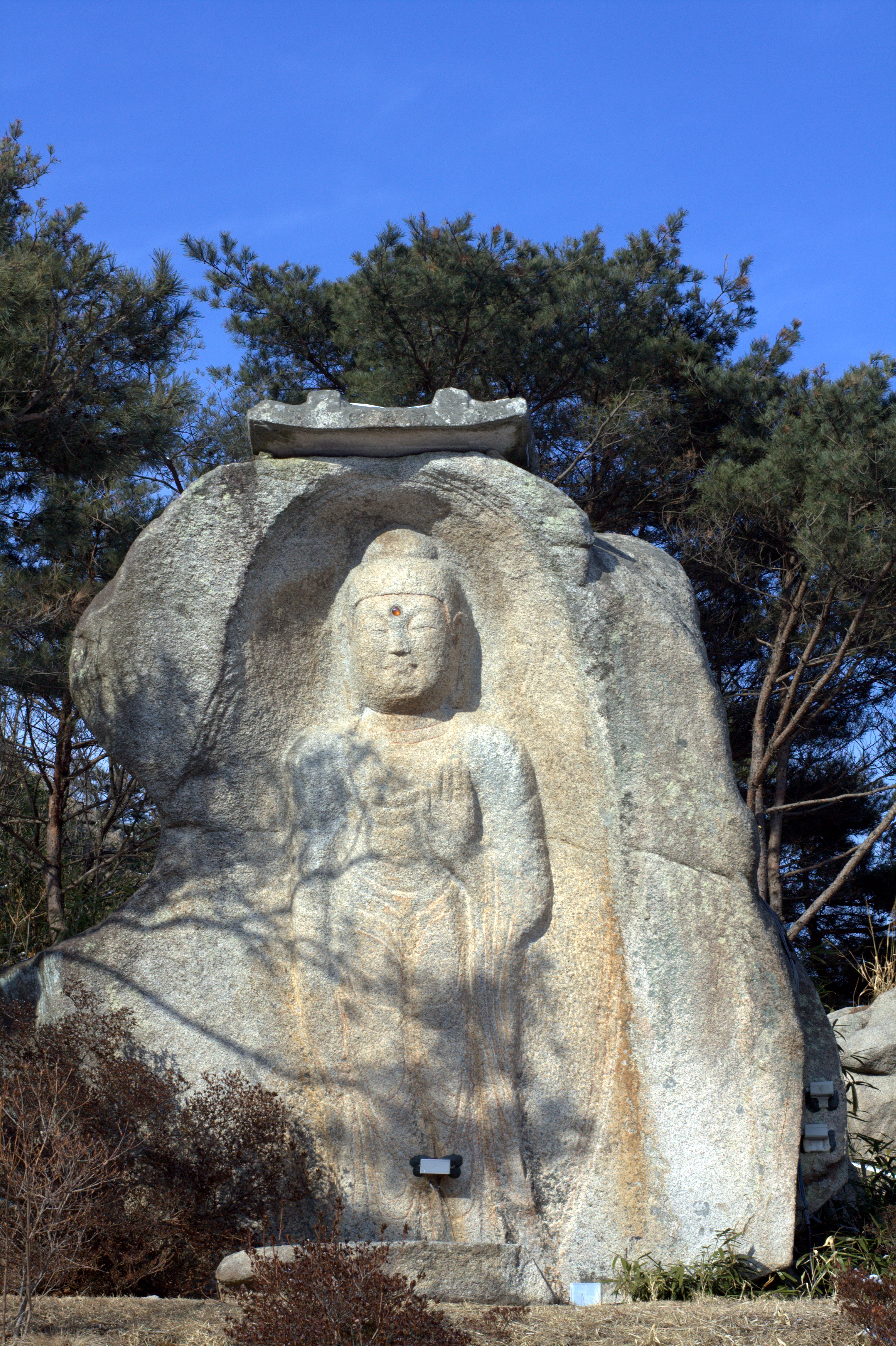 Standing Buddha Carved on the Rock in Singyeong-ri, Hongseong